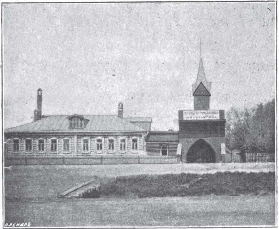 "POLZA" factory near Vsekhsvjatskoe by Moscow. 1898 year.